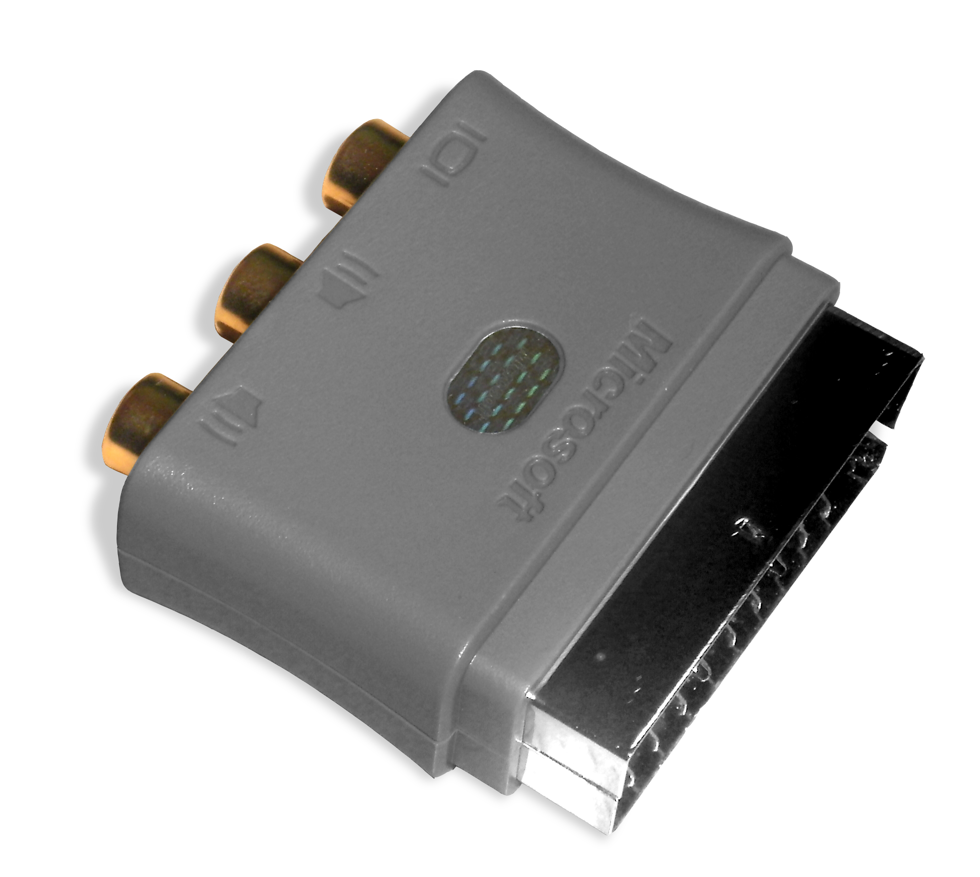 Composite SCART adapter block as shipped with European Xbox 360s